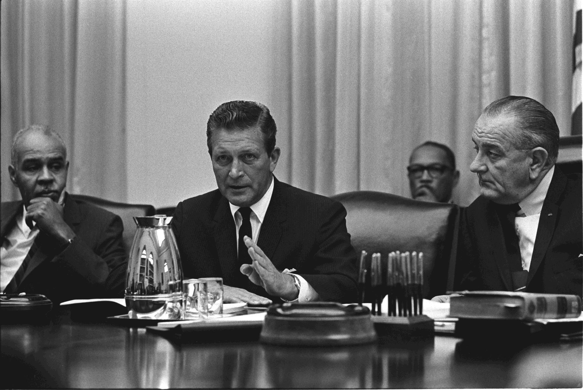 Governor of Illinois Otto Kerner, Jr., meeting with Roy Wilkins (left) and President Lyndon Johnson (right) in the White House.